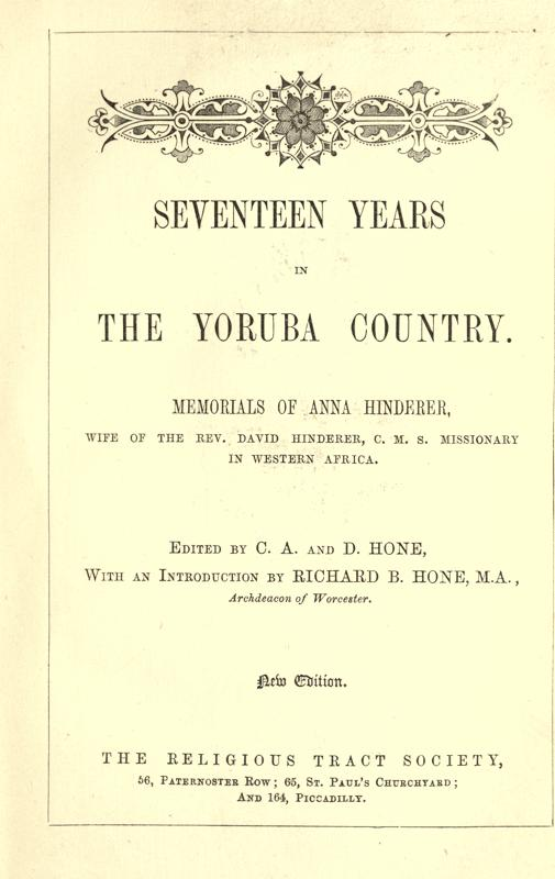 Anna Hinderers book frontispiece in Seventeen years in the Yoruba country. Memorials of Anna Hinderer - Illustration - Published 1877